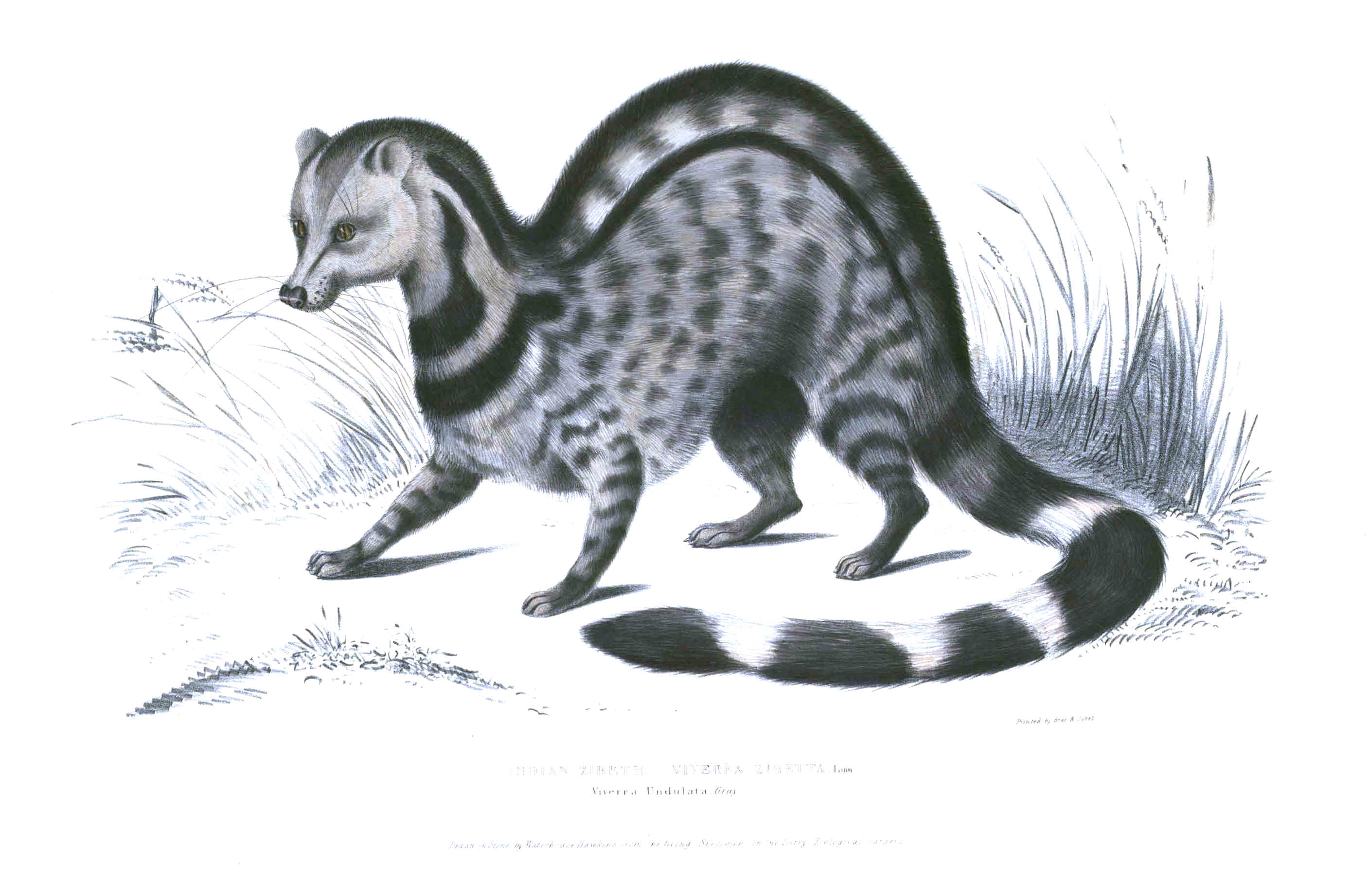 « Viverra zibetta » = Viverra zibetha (Large Indian civet)